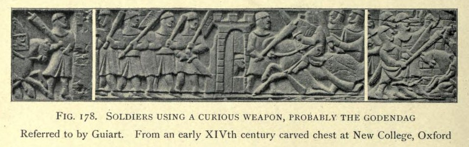 Soldiers using the Godendag: From an early XIVth century carved chest.